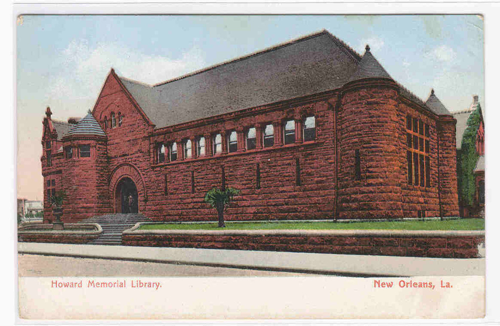 Postcard view of Howard Memorial Library Building, New Orleans.